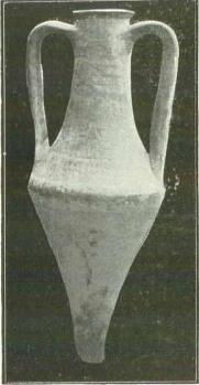 This amphora originated from Greek island of Thasos was found on castra from Poiana, Galați county, Romania.